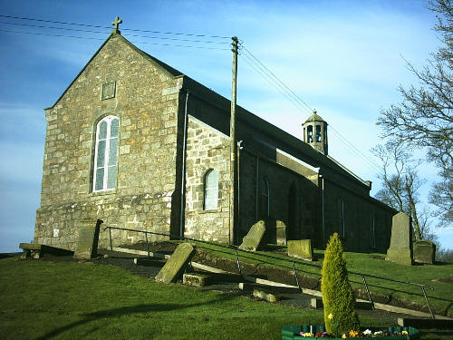 Auchtertool Kirk, built on the site of an earlier church of 1178